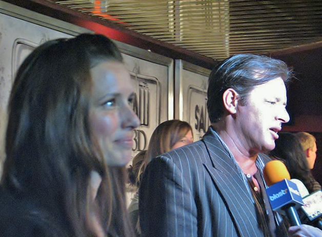 Shawnee Smith and Costas Mandylor (Hoffman) attending the Saw 3D premiere at the Mann's Chinese 6 theater in Hollywood, CA.